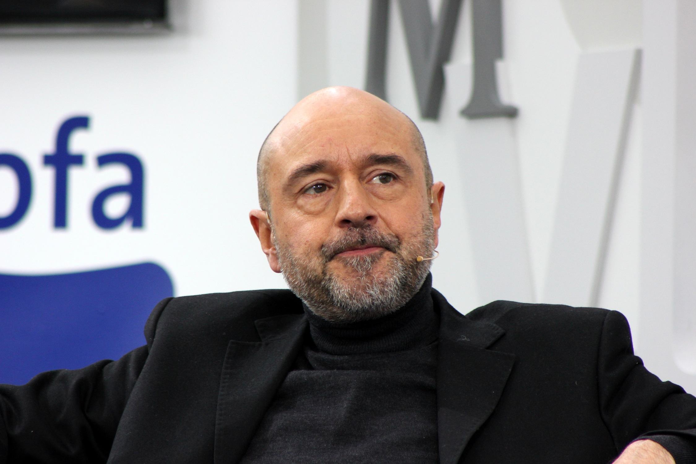 Linus Reichlin, Leipzig Book Fair 2013